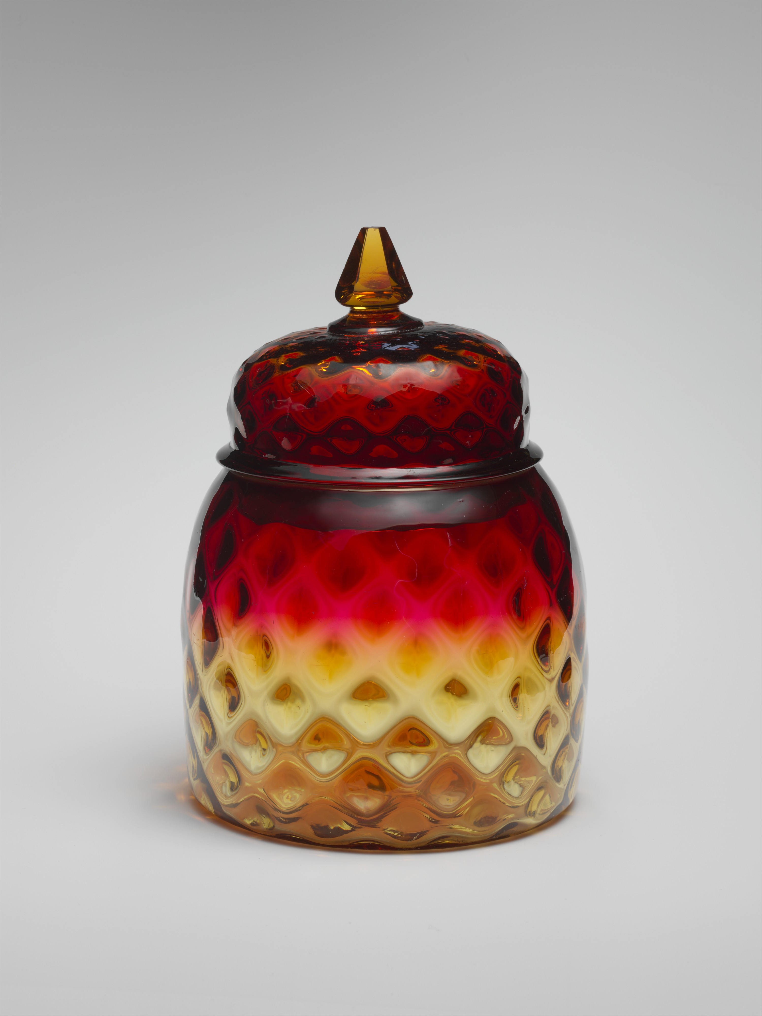 American; Jar; Glass